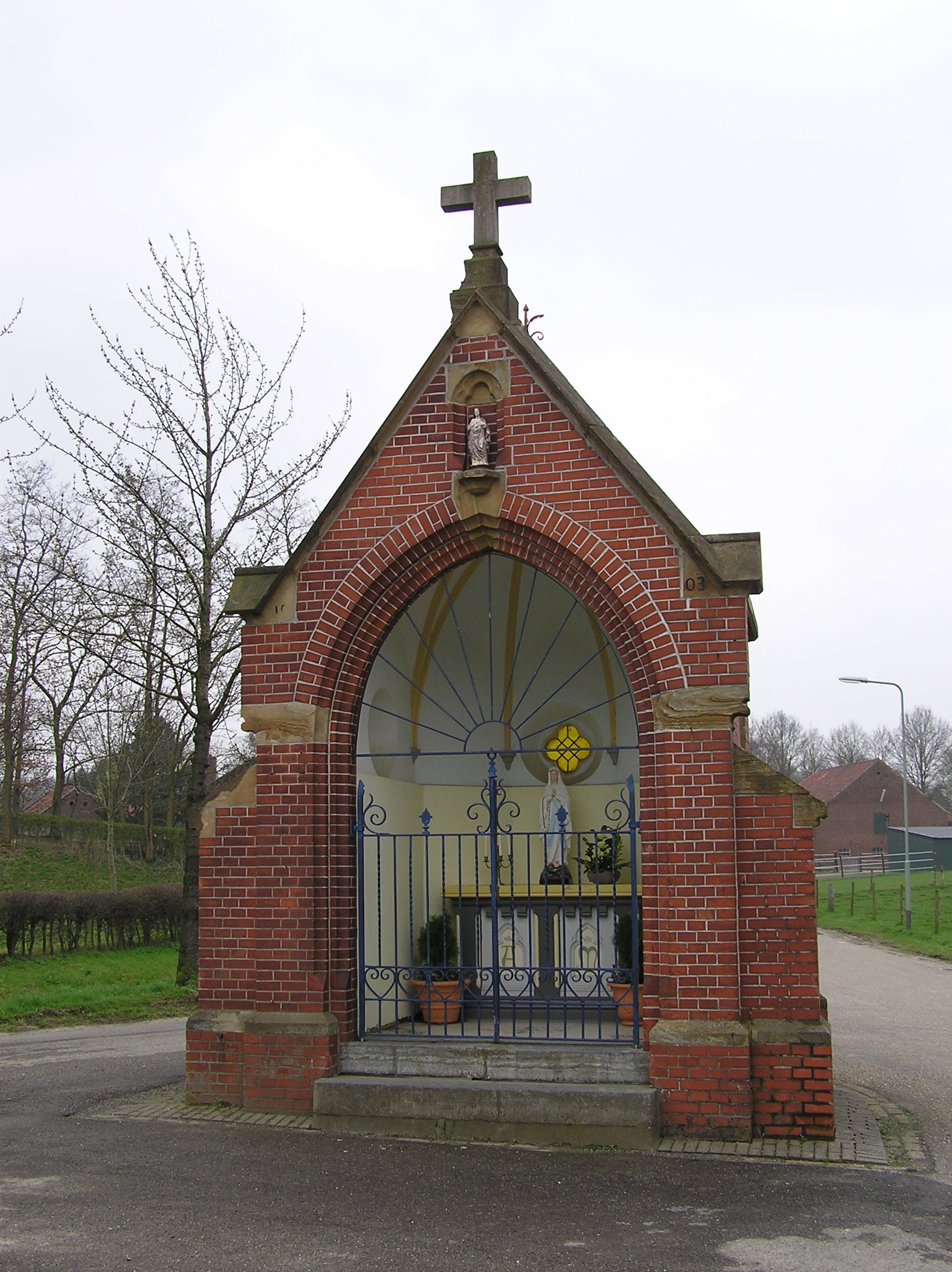 A chappel in the town of Kelmond (Beek, Limburg, NL)